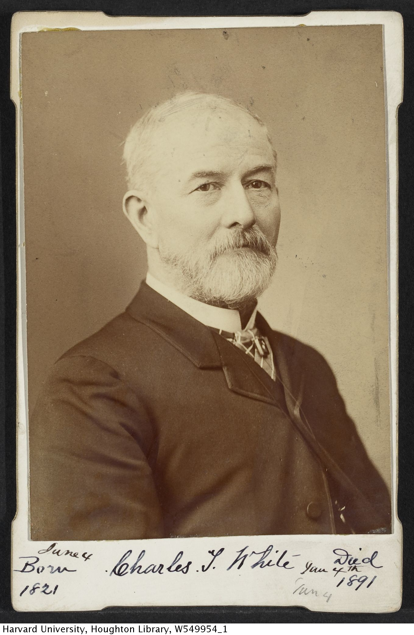 Cabinet card image of American entertainer/minstrel Charles White (1821-1891). TCS 1.1080, Harvard Theatre Collection, Harvard University